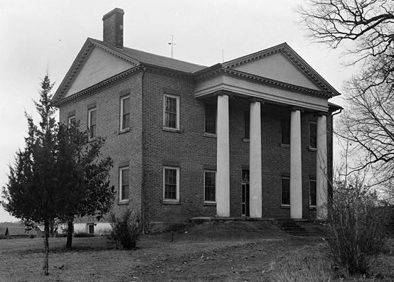 Ingleside, State Route 1383, Iron Station vicinity (Lincoln County, North Carolina) - cropped